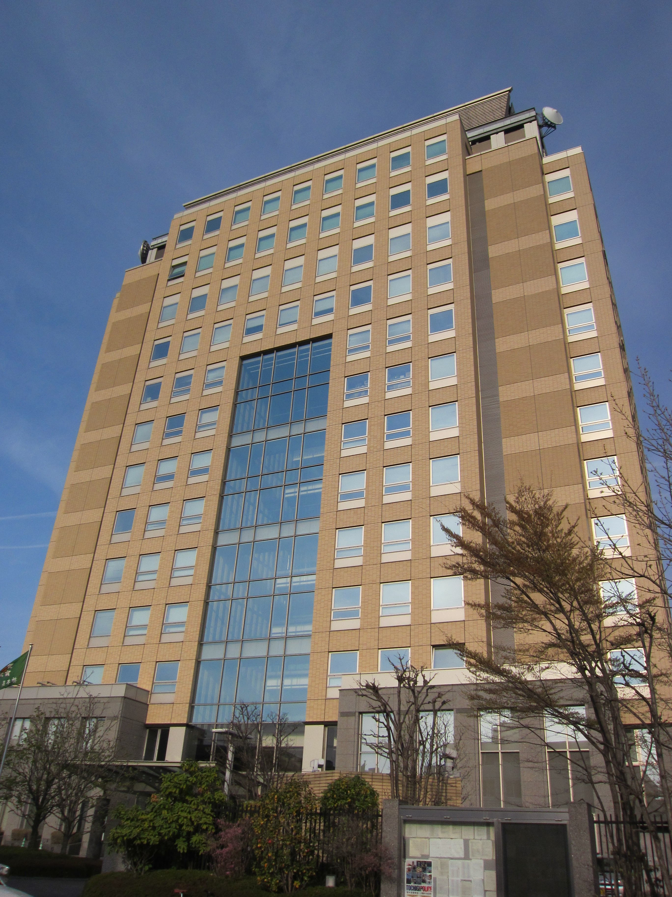 Tochigi Prefectural Police Headquarters